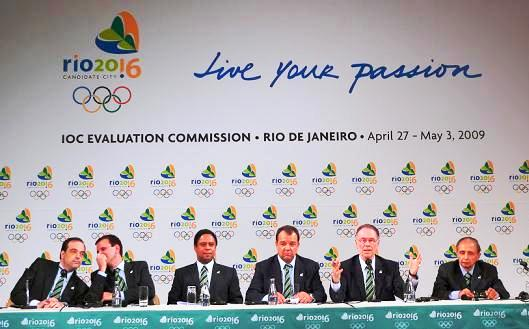 Government and bid leaders meet the press at a press conference held at the end of the first day of the IOC commission visit.